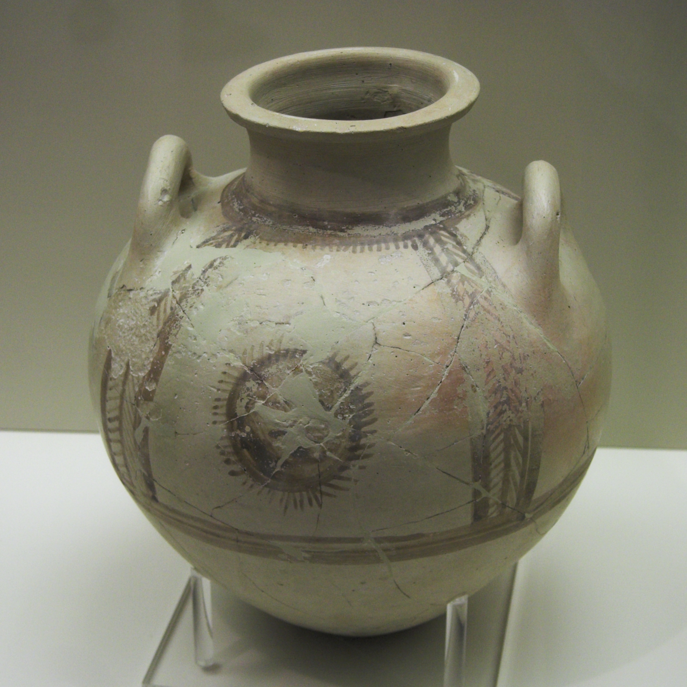 Minyan amphora from the tomb Y, the MH III period, ie the years 1700-1600 BC. Archaeological Museum of Mycenae.